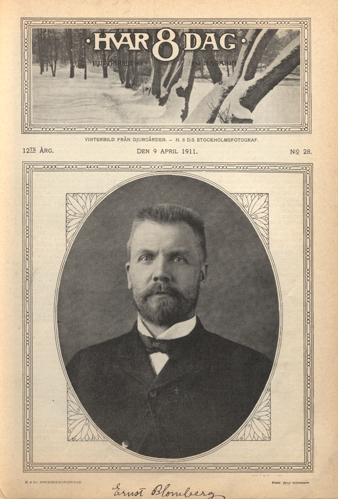 Cover of Hvar 8 dag, a Swedish illustrated weekly magazine published 1899-1934. This particular issue (no. 28, April 9, 1911) shows a cover photo of the recently deceased Ernst Blomberg (1863-1911), a member of the Swedish parliament.